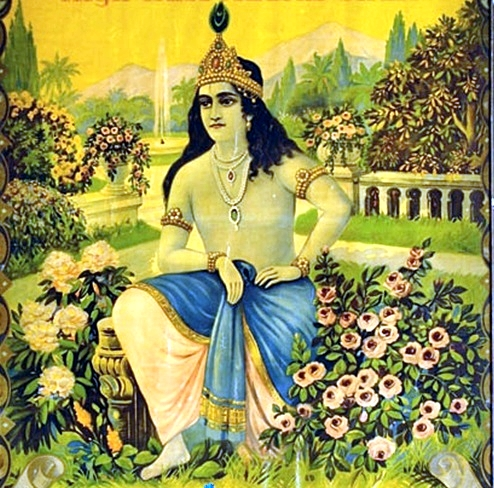 India has a distinguishing flavor in art, be in movie posters or vintage ads or paintings – it can be seen right from the pre-Independent times. The amazing folks at Tasveer Ghar has painstakingly processed and preserved a lot of these images/posters from pre and post colonial India. Here are some of the most interesting photos/images/posters from the collection. Enjoy!